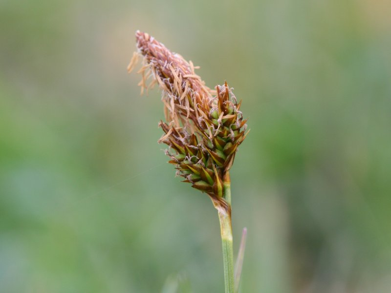 Frühlings-Segge (Carex caryophyllea)